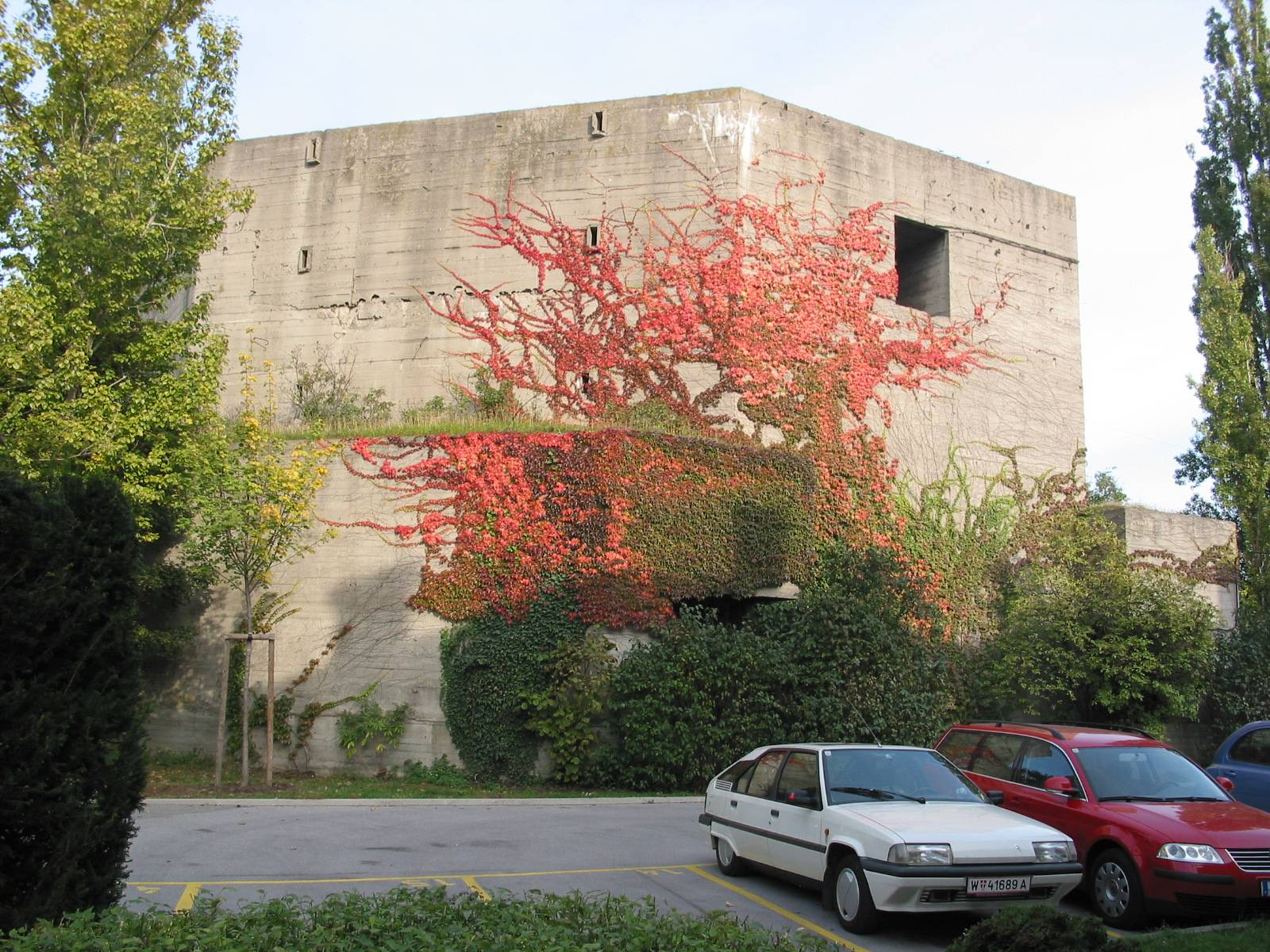 unfinished bunker (perhaps small "Flak Tower") (definitely not, does not meet the criteria to be a FLAK-Tower) --Pressemappe 20:31, 22 April 2008 (UTC) , Floridsdorf, Gerichtsgasse, Vienna, 2005-10-15 selfmade photo